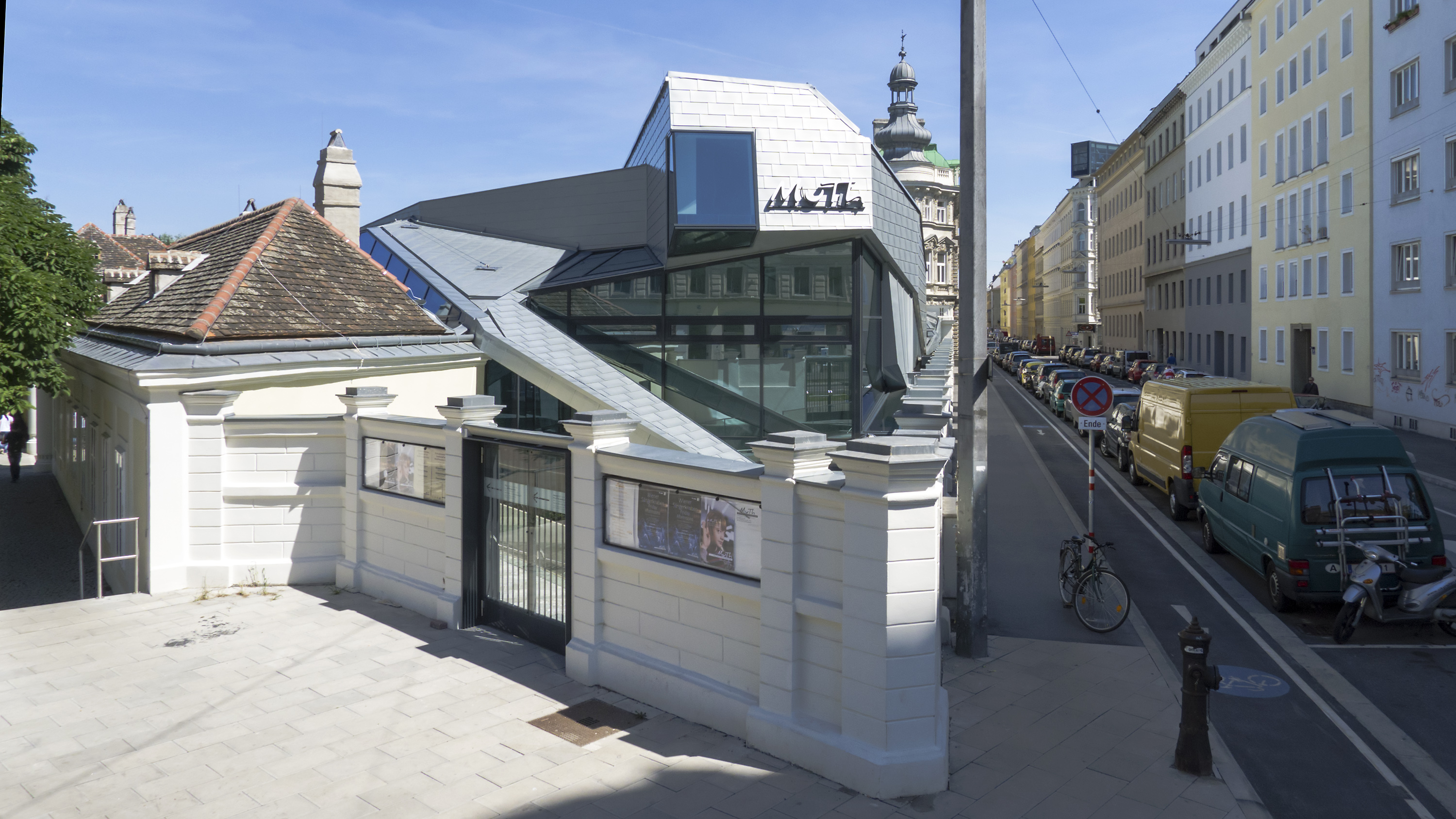 Concert hall MuTh in Vienna 2